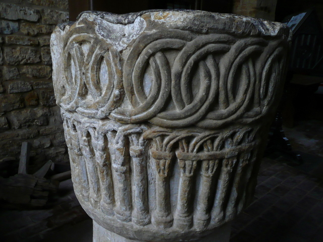 Font at St. John the Baptist's church, South Croxton Detail of the ancient carved font.